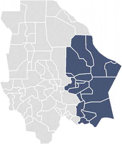 Map of the Fifth Federal Electoral District of the State of Chihuahua, México.